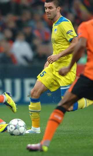 Sanel Jahić players Of APOEL